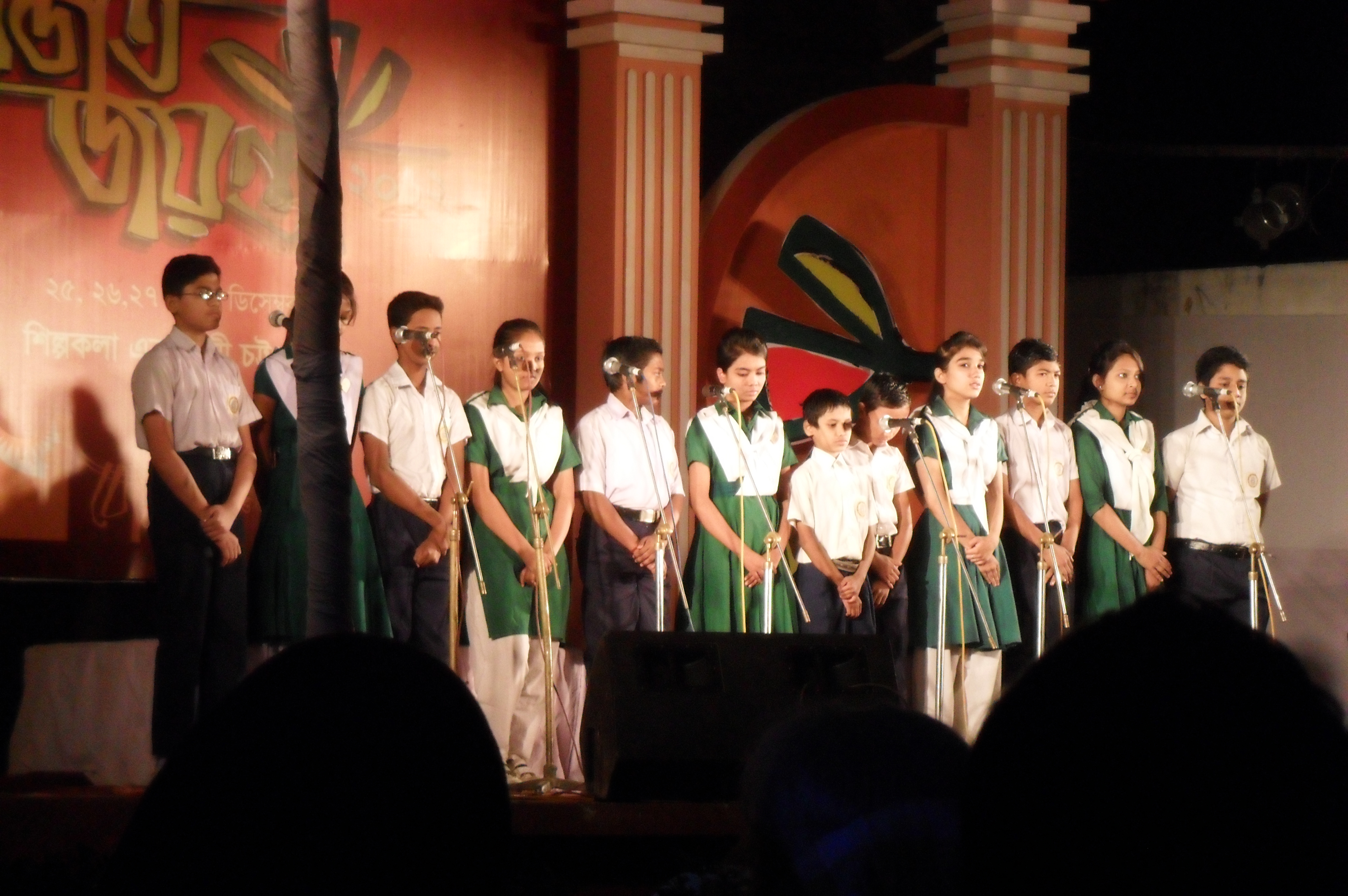 Students of Bangladesh Bank Colony High School performed in Rajat Jayanti at Aniruddha Muktamancha, Zilla Shilpakala Academy, Chittagong